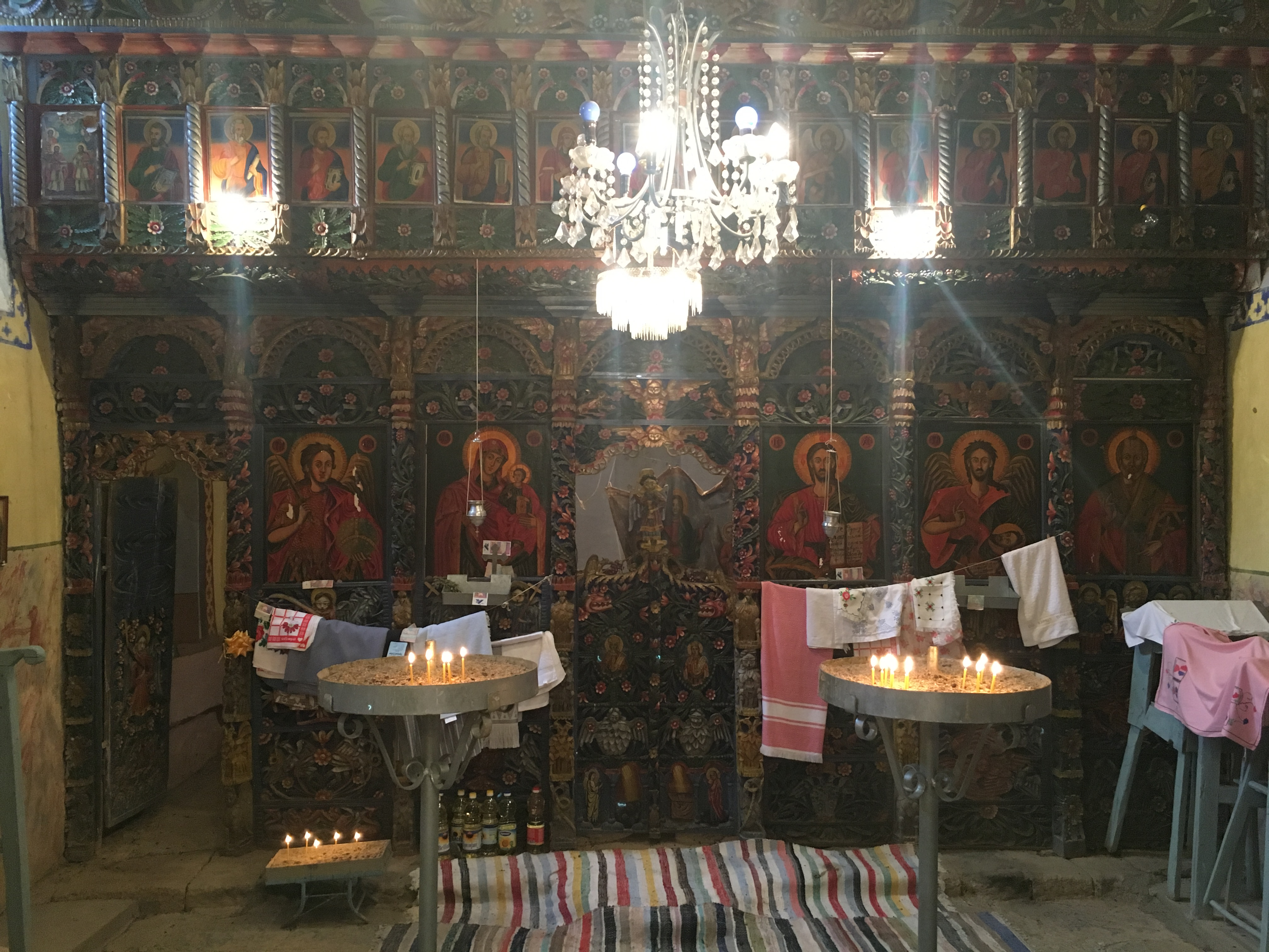 Wikiexpedition to Kopačka